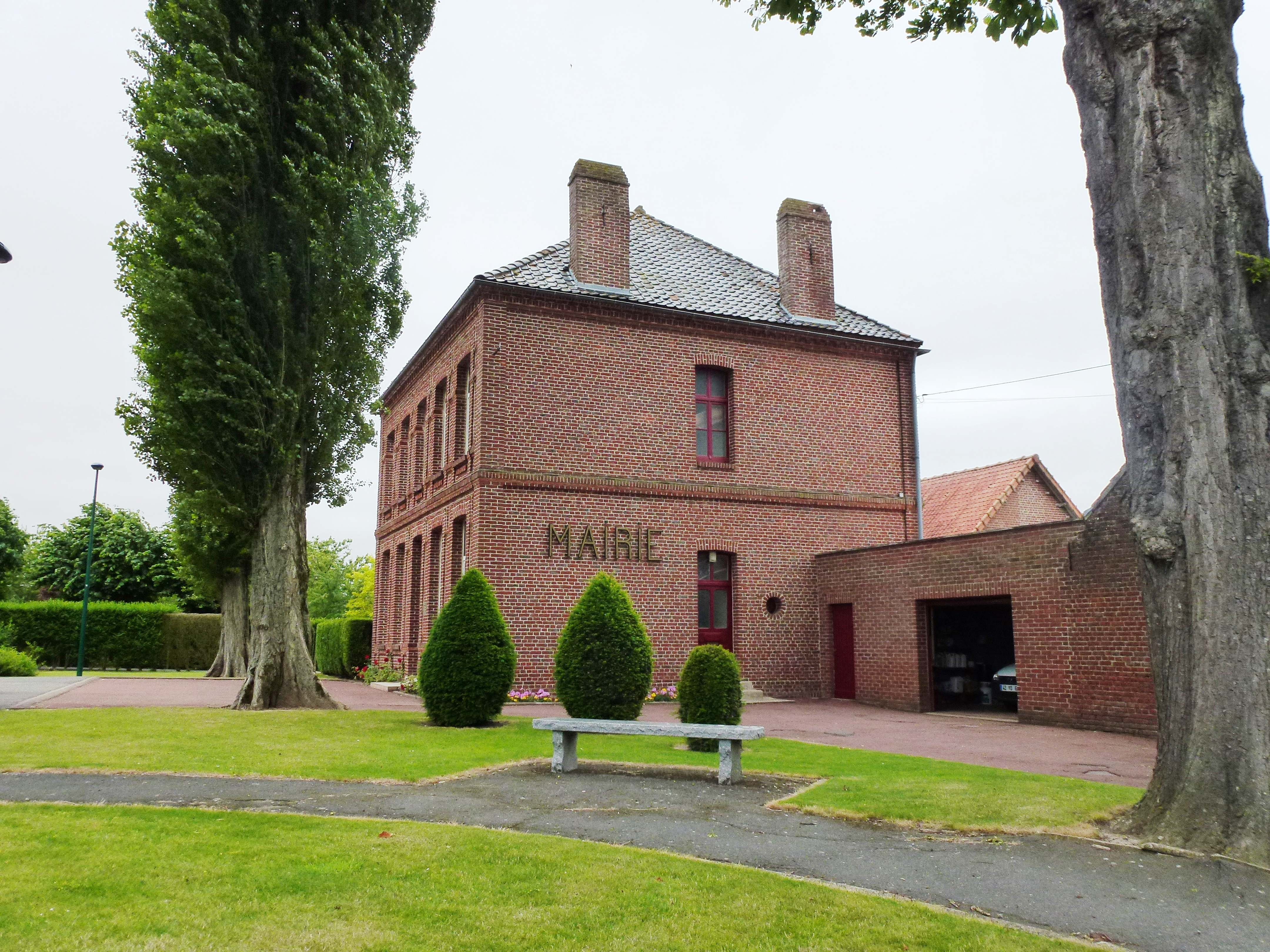 Lambres (Pas-de-Calais) mairie